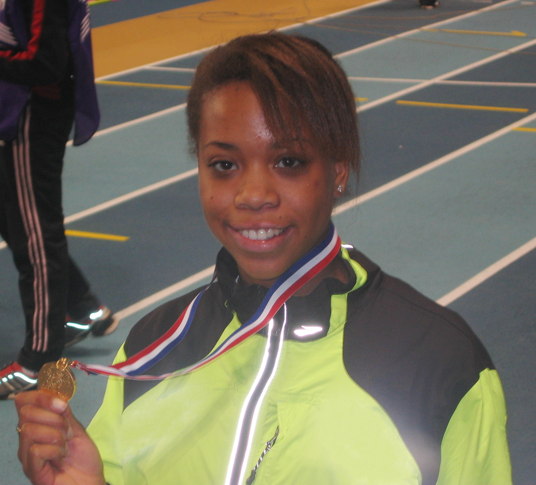 Jamile Samuel at Dutch indoor championships '08, Gent